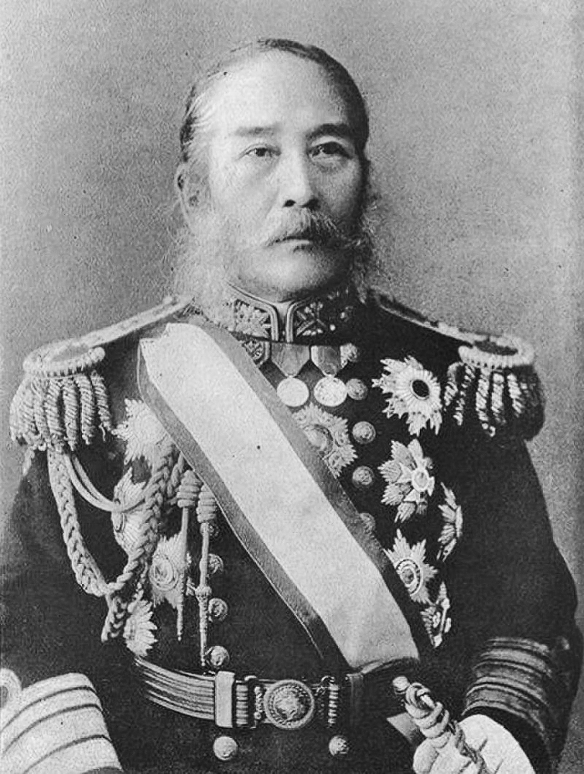 Portrait of Enomoto Takeaki (榎本武揚, 1836 – 1908)